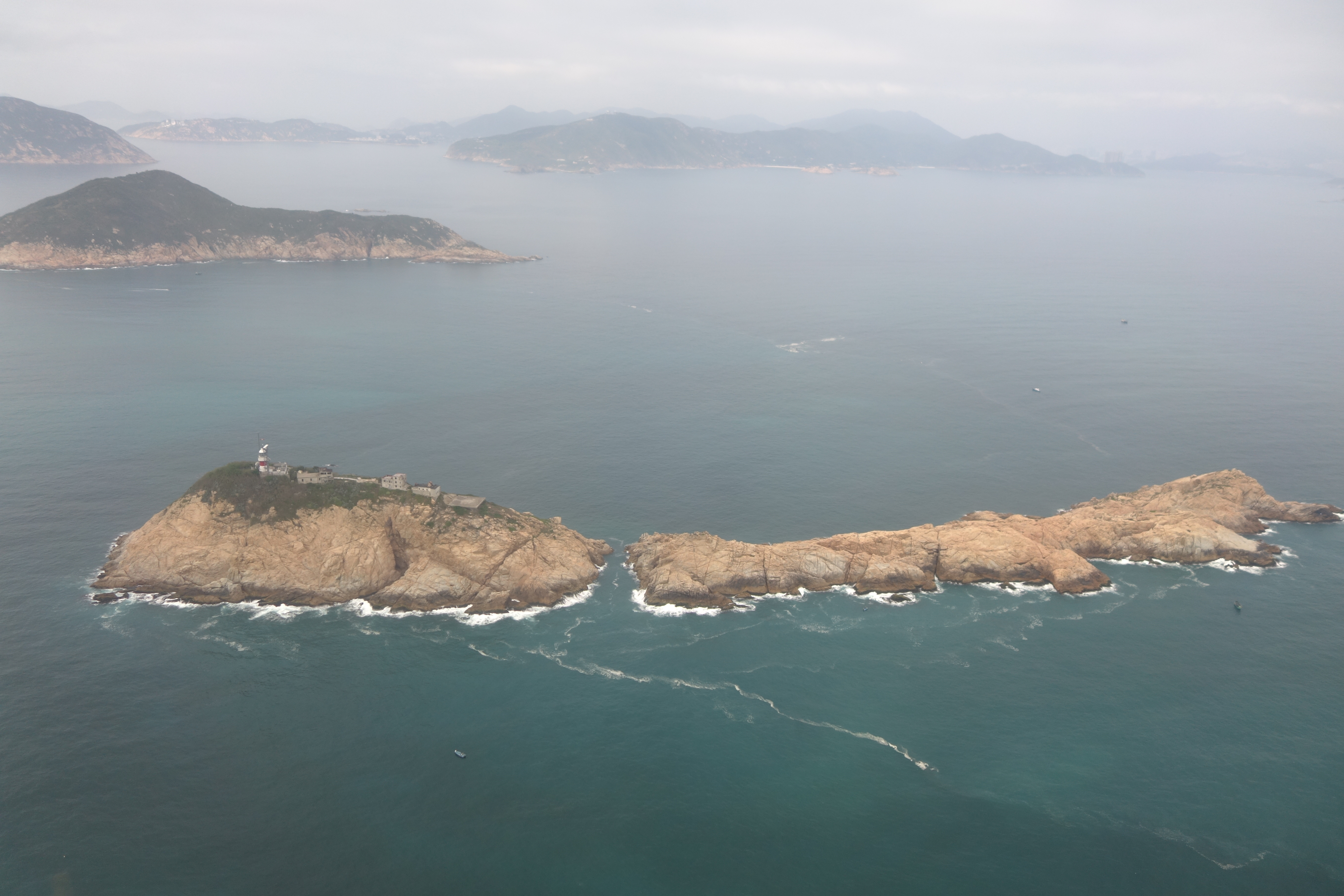 Aerial view of Waglan Island, Sung Kong (宋崗) and Lo Chau (螺洲, Beaufort Island) could be seen in the background on the left off the shore of Hong Kong Island.